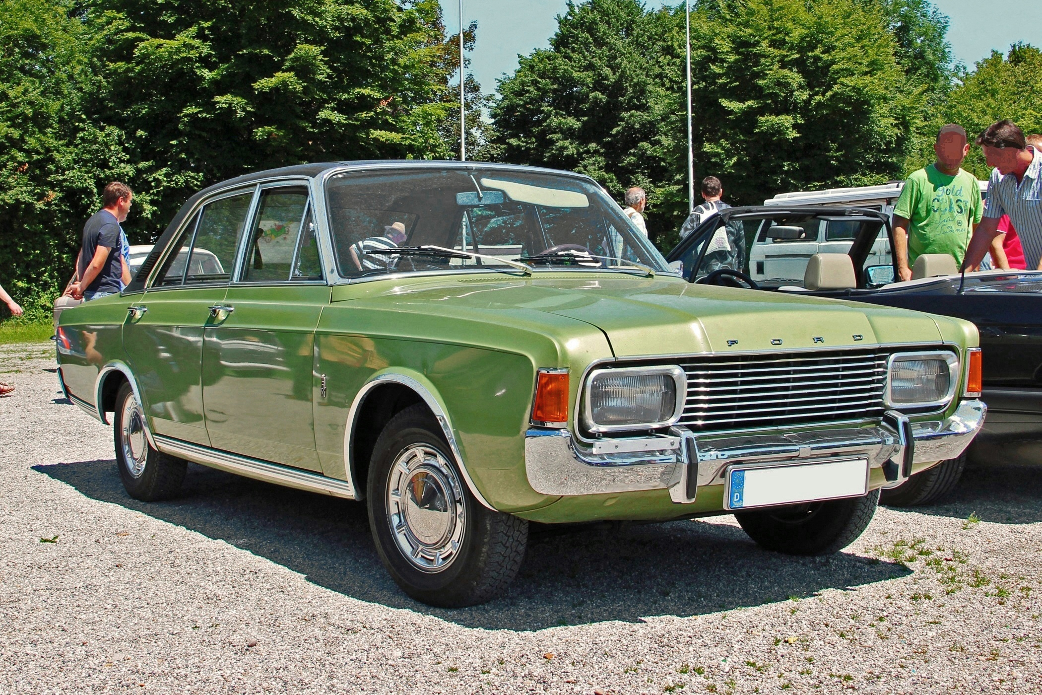 1970 Ford P7b Taunus 20M TS